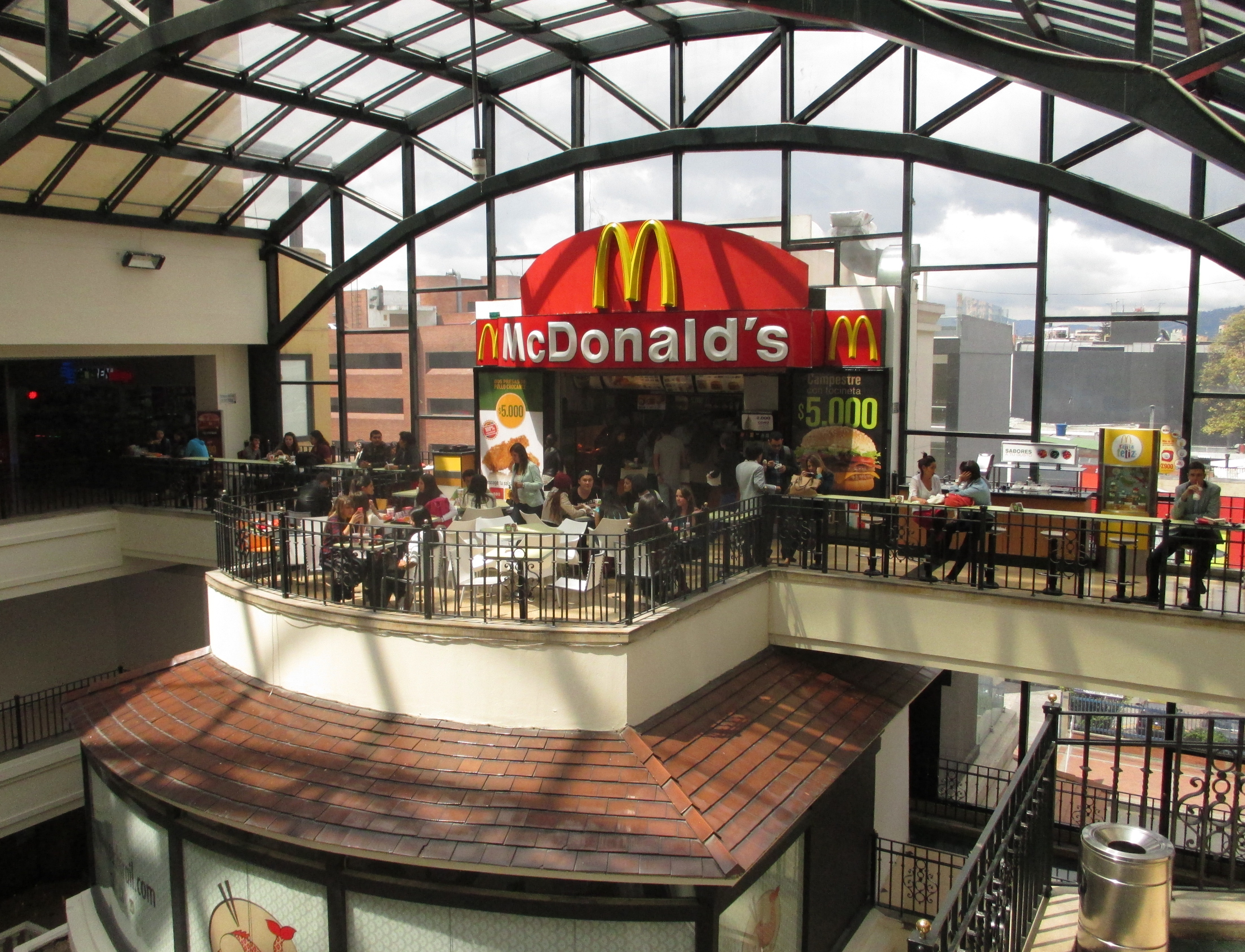 Bogotá